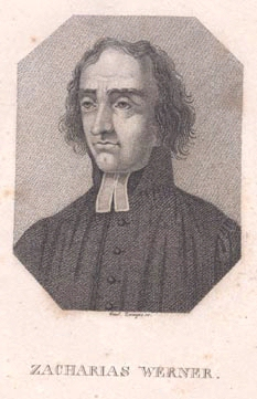 Friedrich Ludwig Zacharias Werner (* 18th November 1768 in Königsberg in Prussia; † 17th January 1823 in Vienna)